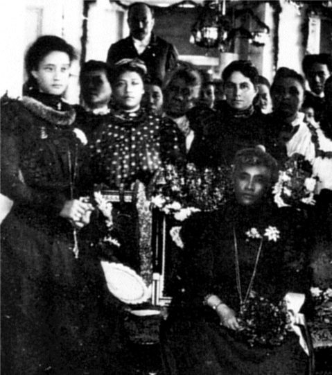 Close up of Queen Liliuokalani and Princess Kaiulani mourning over the Annexation of Hawaii to the United States.